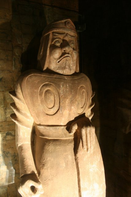 A stone tomb guardian standing inside the tomb of Emperor Xuanwu of Northern Wei, Luoyang, China.